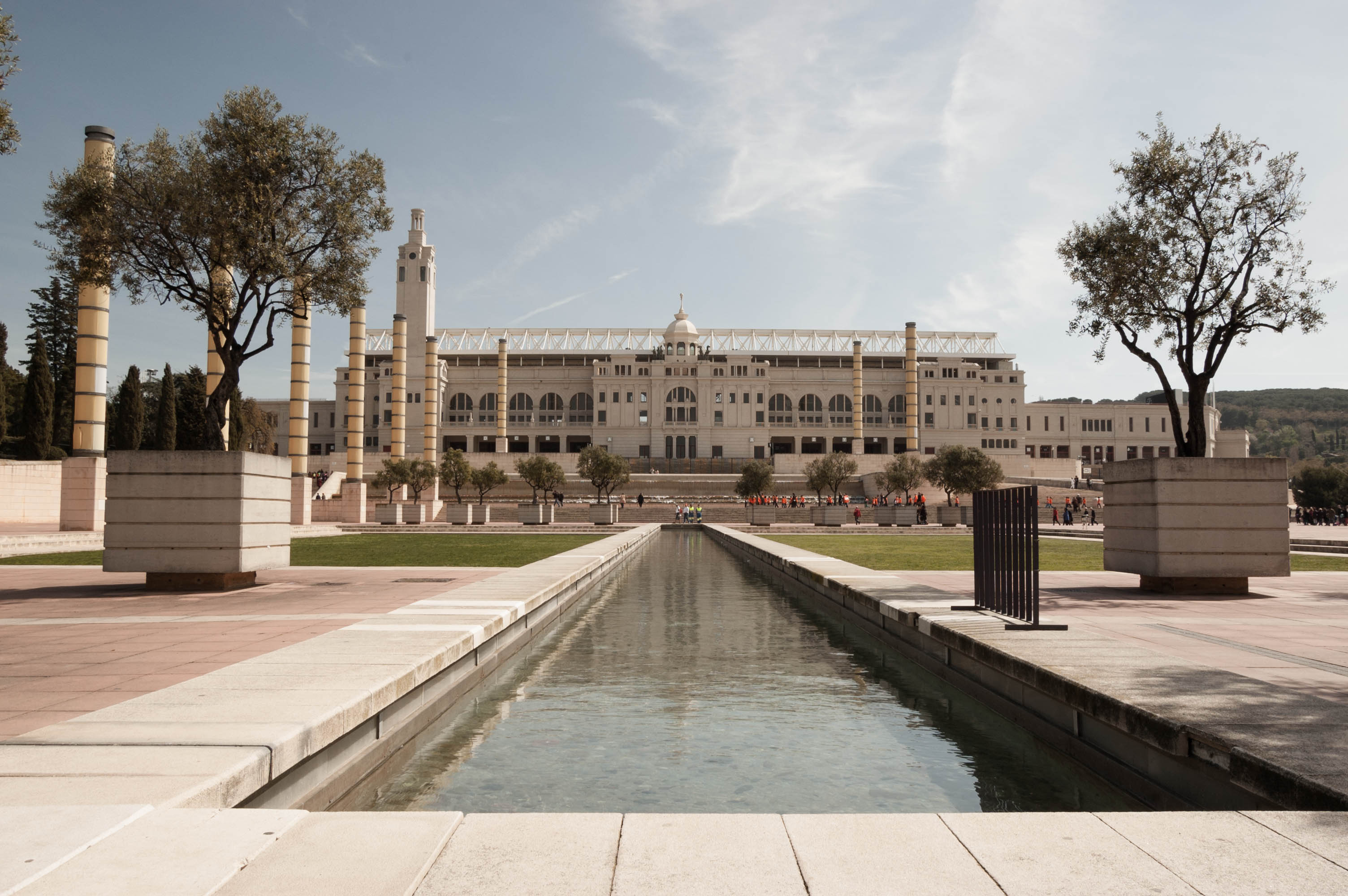 Outer view of the Estadi Olímpic Lluís Companys